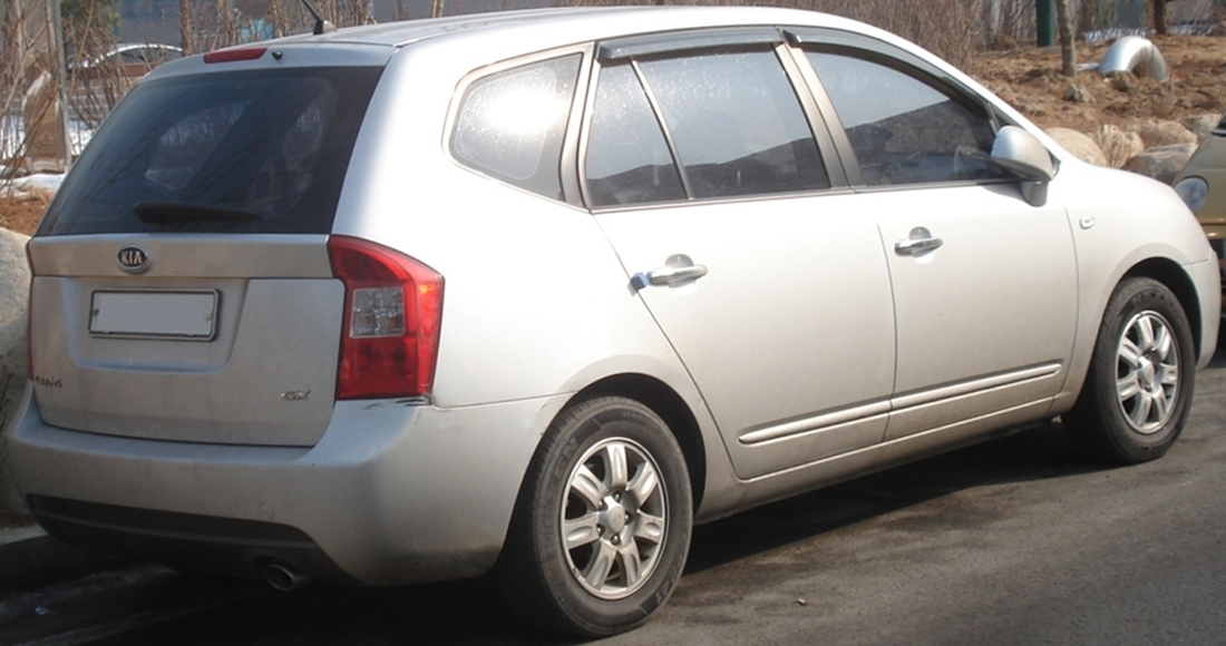 Kia New Carens